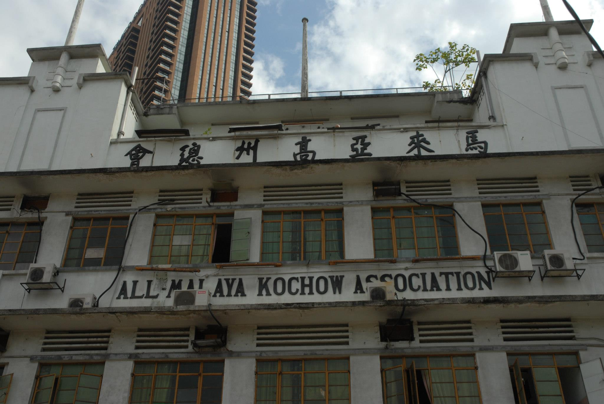 The Kochow Association in Malaysia.